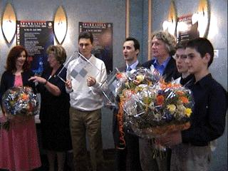 Victory ceremony, Dortmunder Schachtage 2002, Photographer Gerhard Hund.